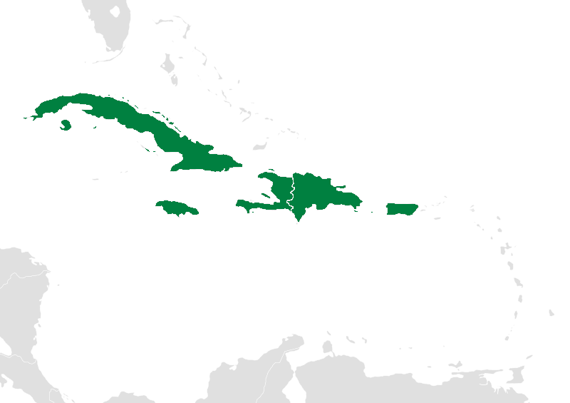 Map of the Caribbean nations. iThe source code of this SVG is valid. Map of the Caribbean Islands with the Greater Antilles highlighted in green.